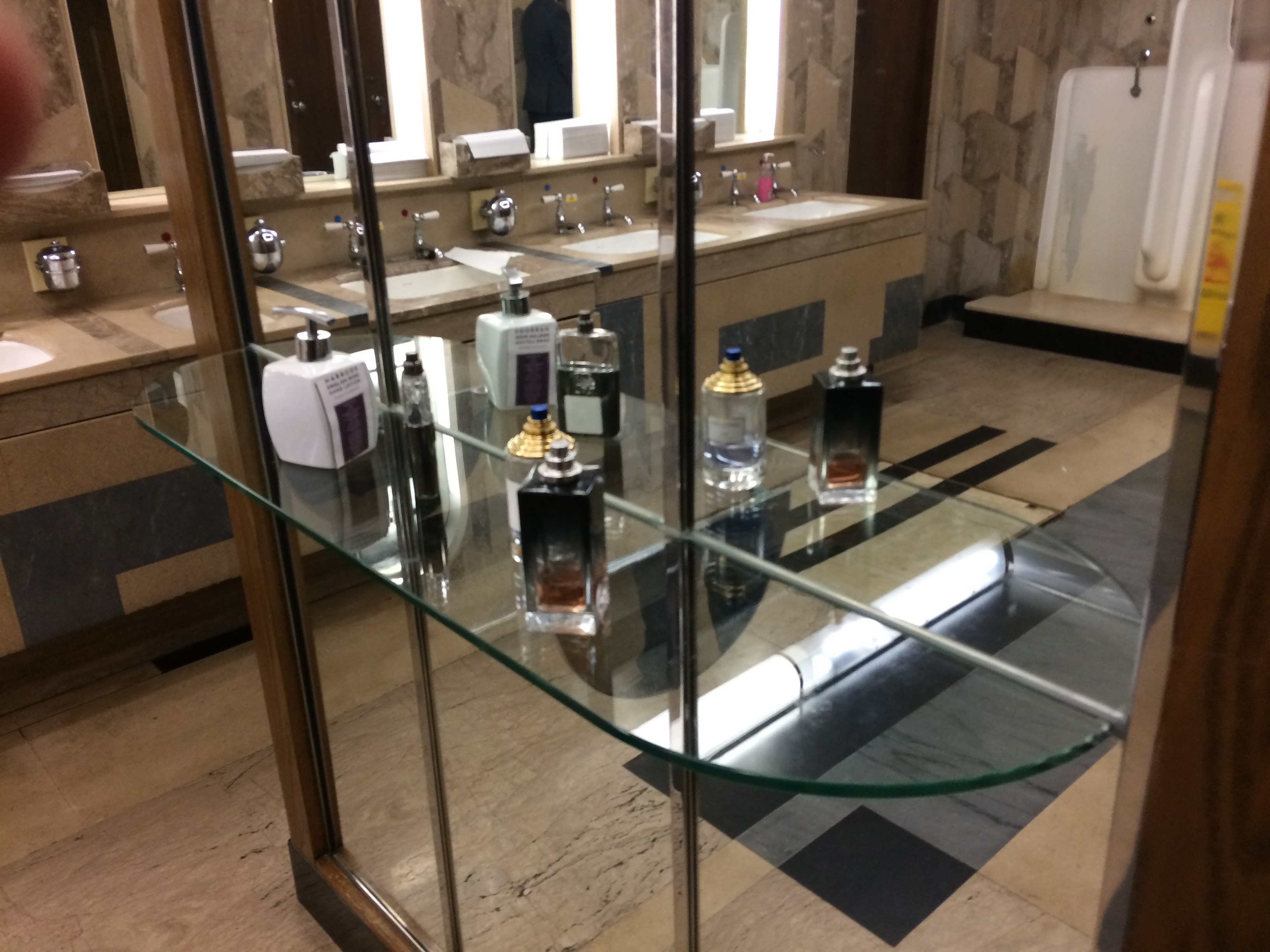 Men's gents (restroom) in Harrods department store.